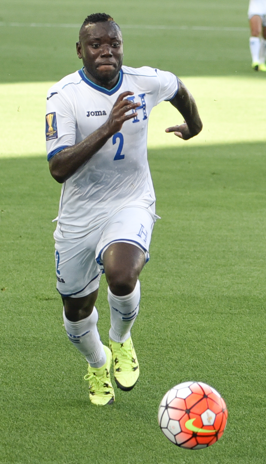 Wilmer Crisanto playing for Honduras Men's National Team against Haiti in the Gold Cup, Sporting Park, Kansas City, Kansas, 13JUL2015.